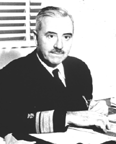 Thomas Parran